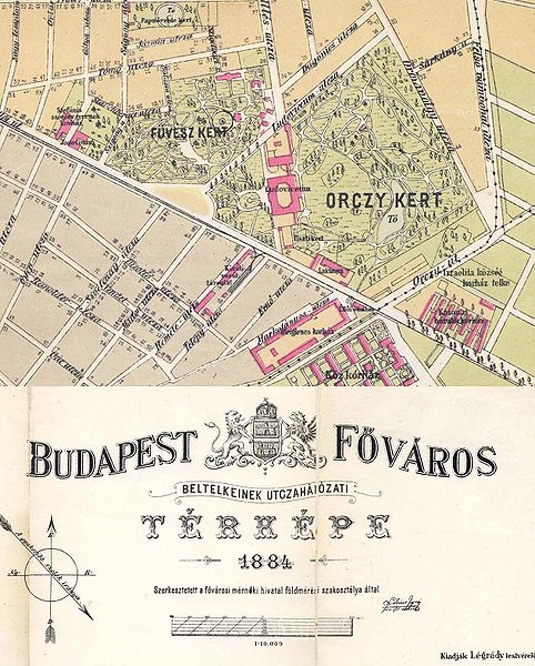 The Ludovica Military Academy and the adjoining Orczy park and Old Botanical Gardens, 1884.